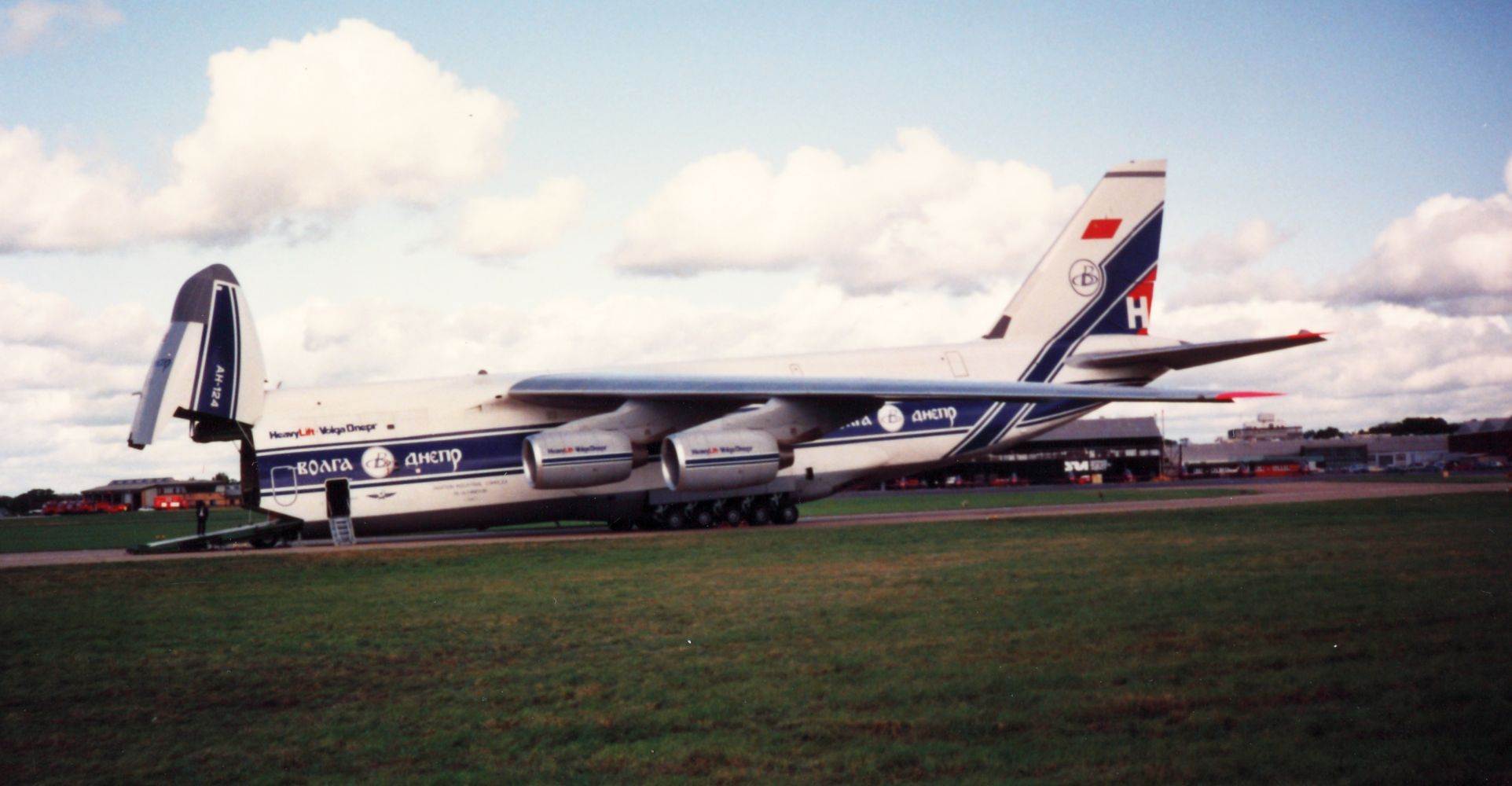 Catalog #: 15_002254 Title: Antonev An-124 ADDITIONAL INFORMATION: Farnborough Collection: Charles M. Daniels Collection Photo Album Name: Soviet Aircraft Page #: 67 Tags: Soviet Aircraft, Charles Daniels, PUBLIC COMMONS.SOURCE INSTITUTION: San Diego Air and Space Museum Archive